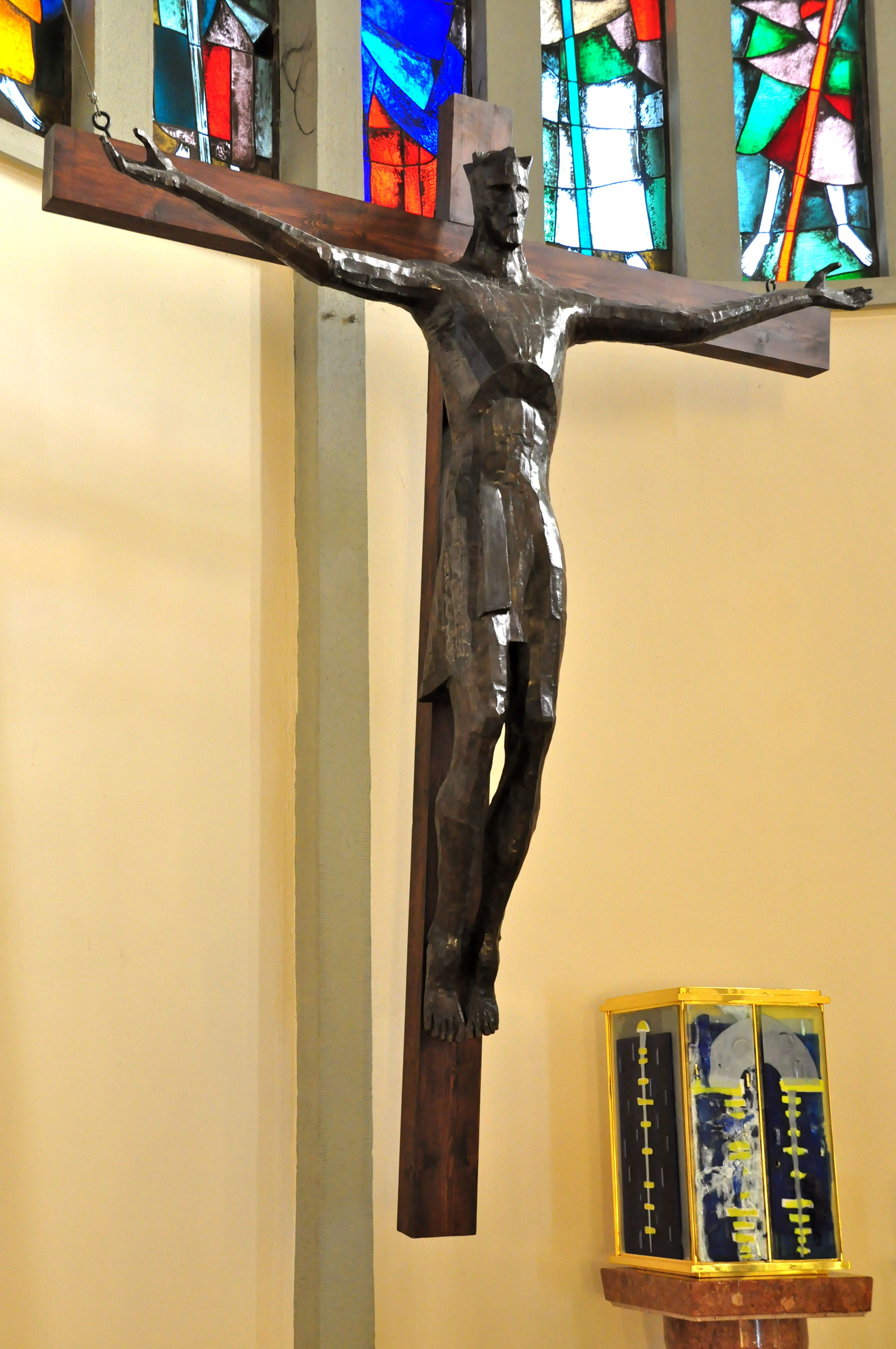 “The Crucified Christ”, steel sculpture, created in the year 1971 by the sculptor Jan Milan Krkoška for the parish church Saint Ruprecht in the capital Klagenfurt, municipality Klagenfurt am Wörthersee, Carinthia, Austria